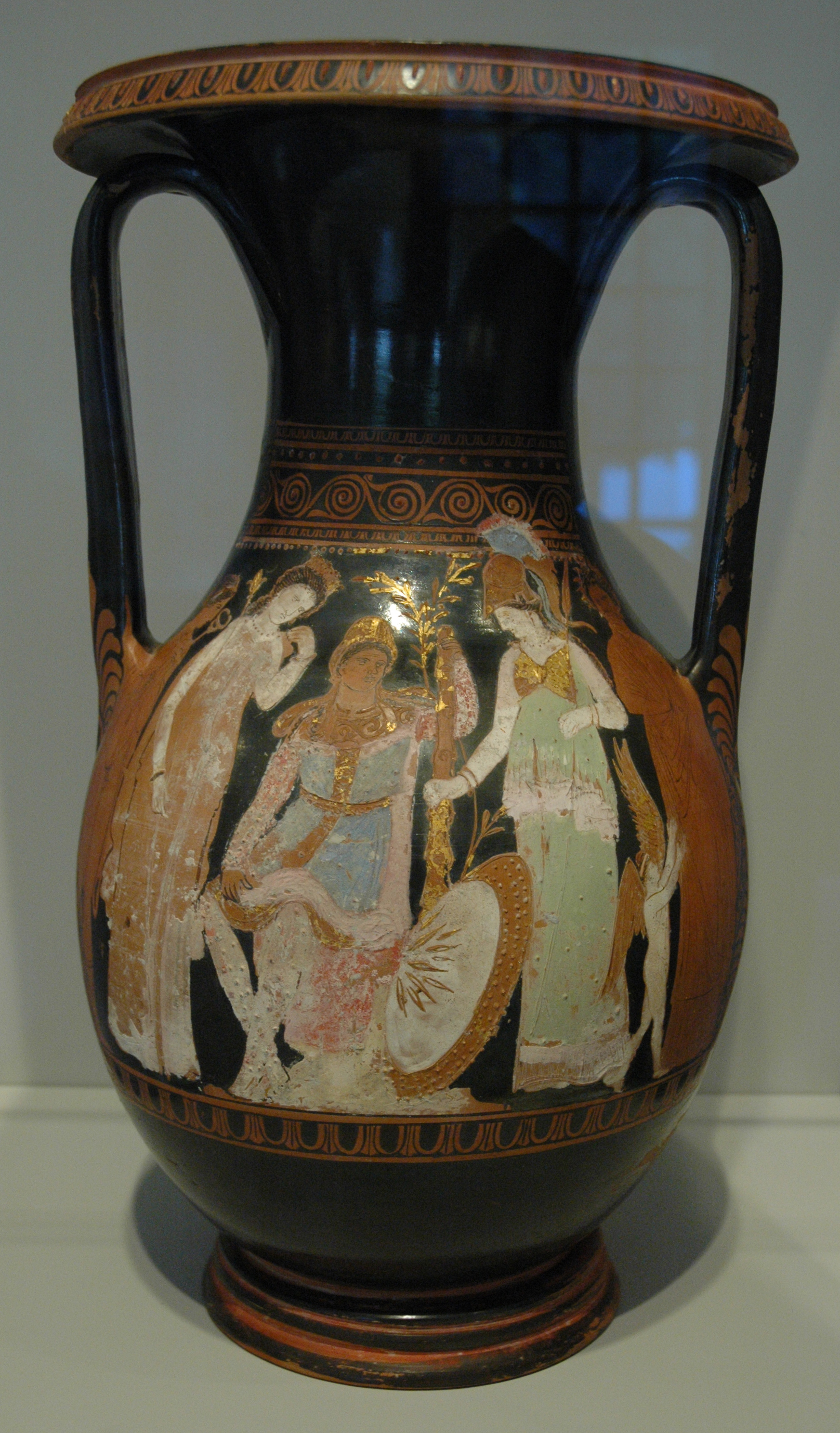 Judgement of Paris. Attic Kerch-style red-figure pelike, ca. 360 BC.